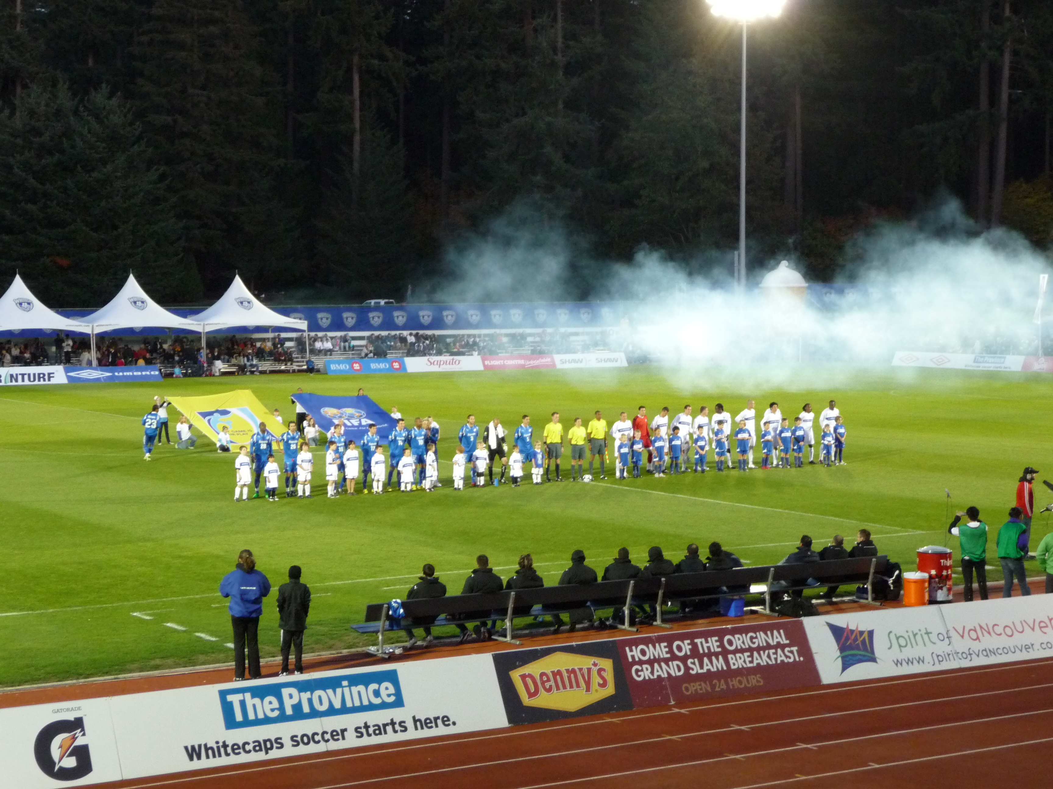 The Vancouver Whitecaps and Montreal Impact at the first leg of the 2009 USL First Division Championship, Swangard Stadium, Burnaby, British Columbia.